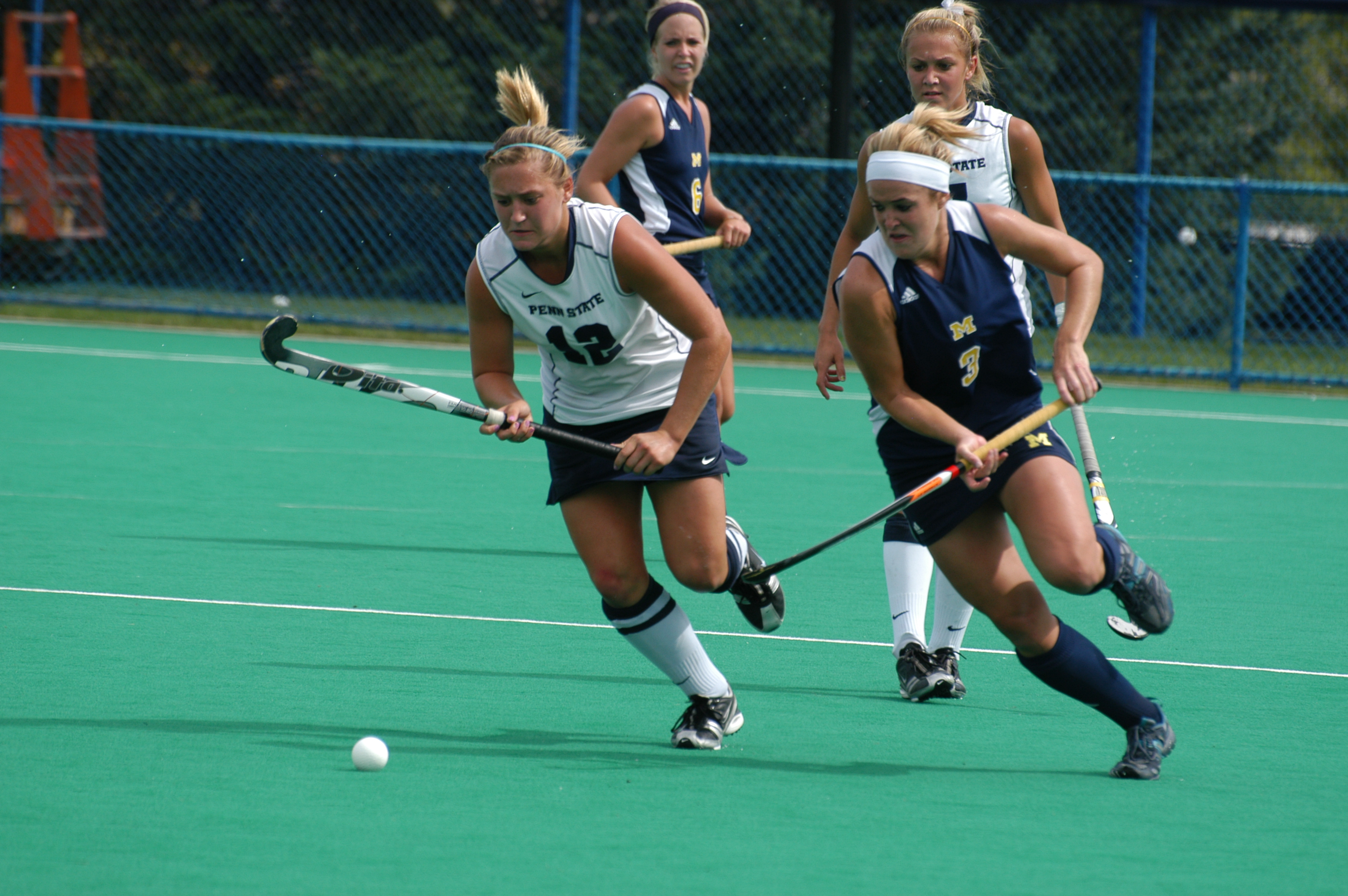 The Michigan Wolverines vs. the Penn State Nittany Lions during a Big Ten field hockey game in University Park, Pennsylvania.